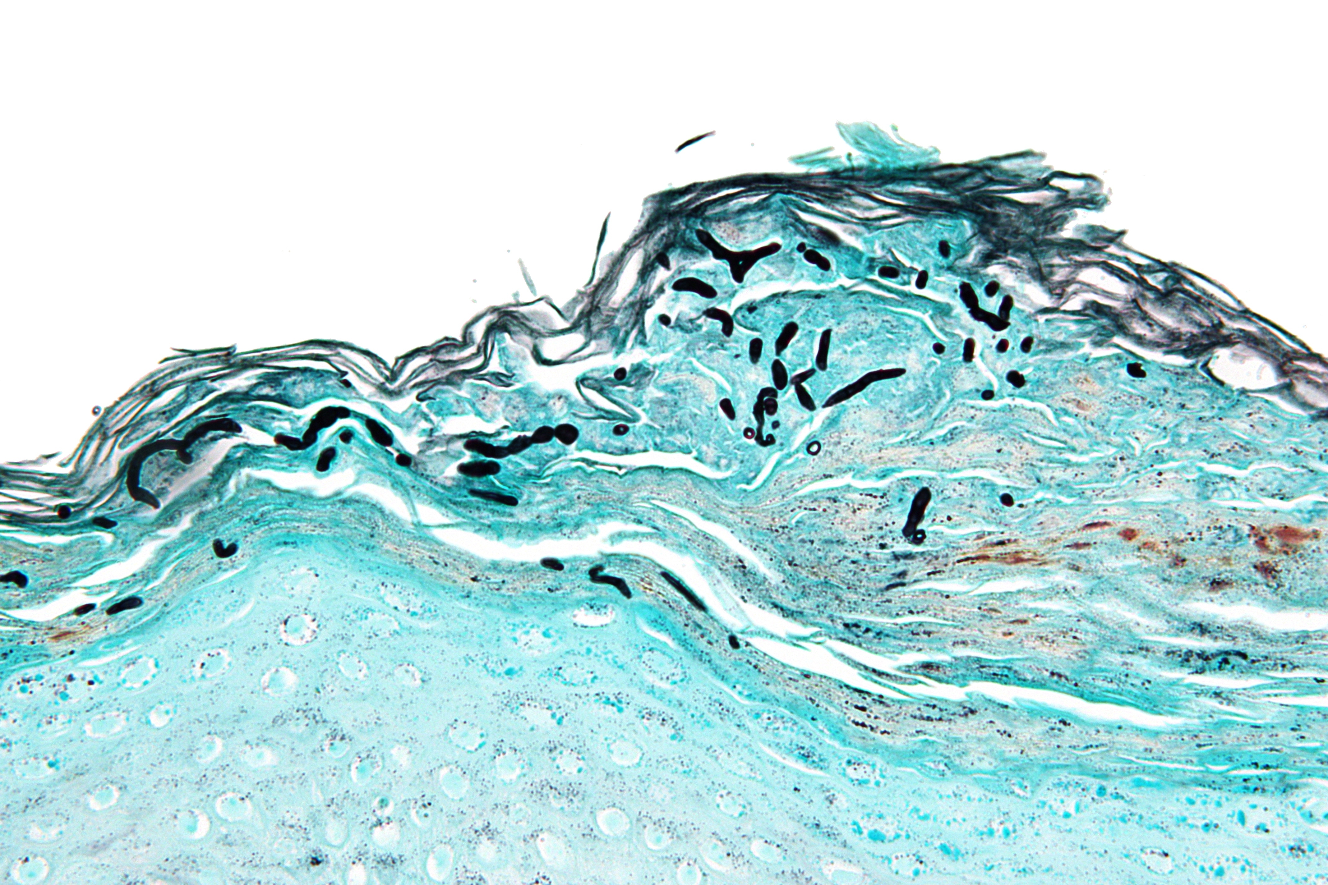 Very high magnification micrograph of a superficial dermatomycosis consistent with candidiasis. Vulvar biopsy. GMS stain. Related images Low mag. Intermed. mag. High mag. Low mag. Intermed. mag. High mag. Very high mag.